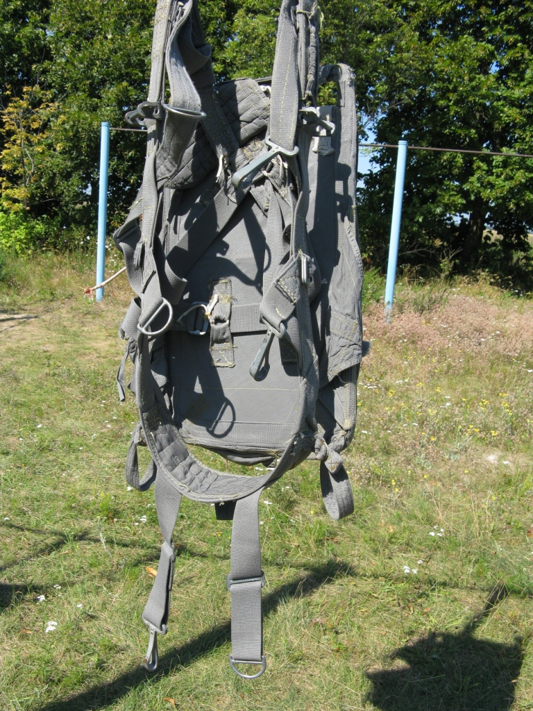 Suspended system of parachute of D-5.